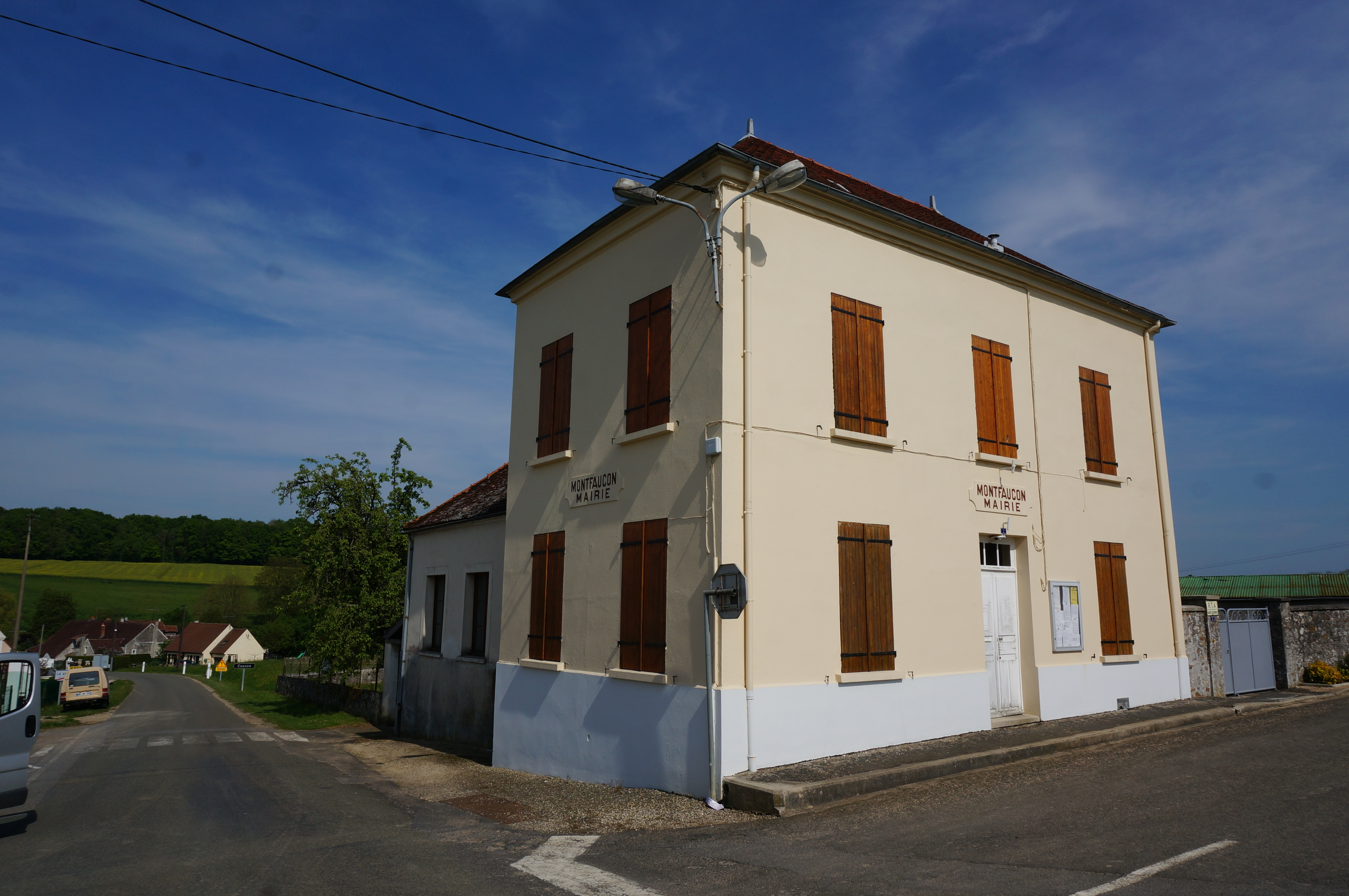 à Montfaucon.